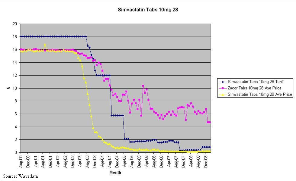 Price decline for branded and generic drugs compared with the reimbursement drug tariff price